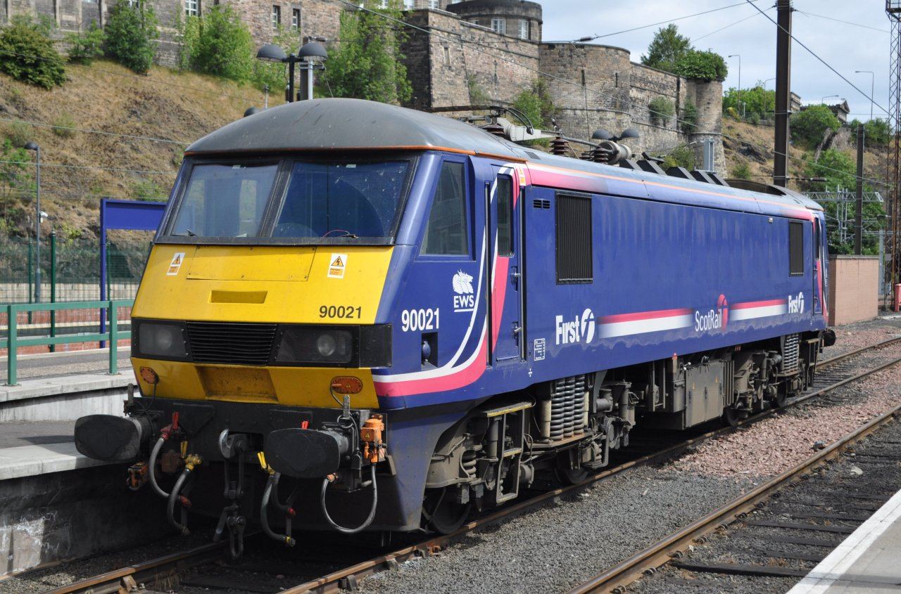 90021 in First ScotRail livery at Edinburgh Waverley station.